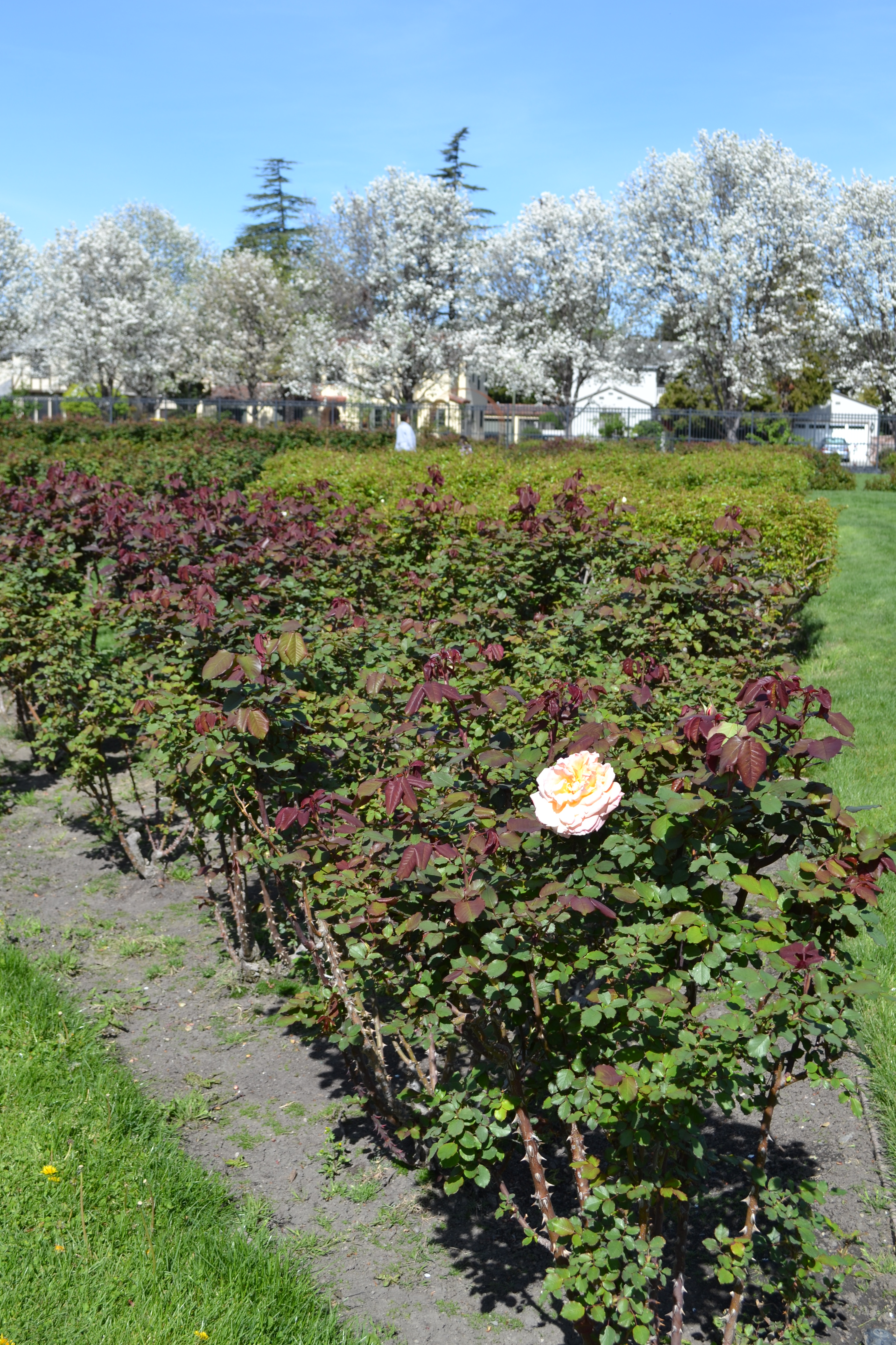 San Jose Municipal Rose Garden